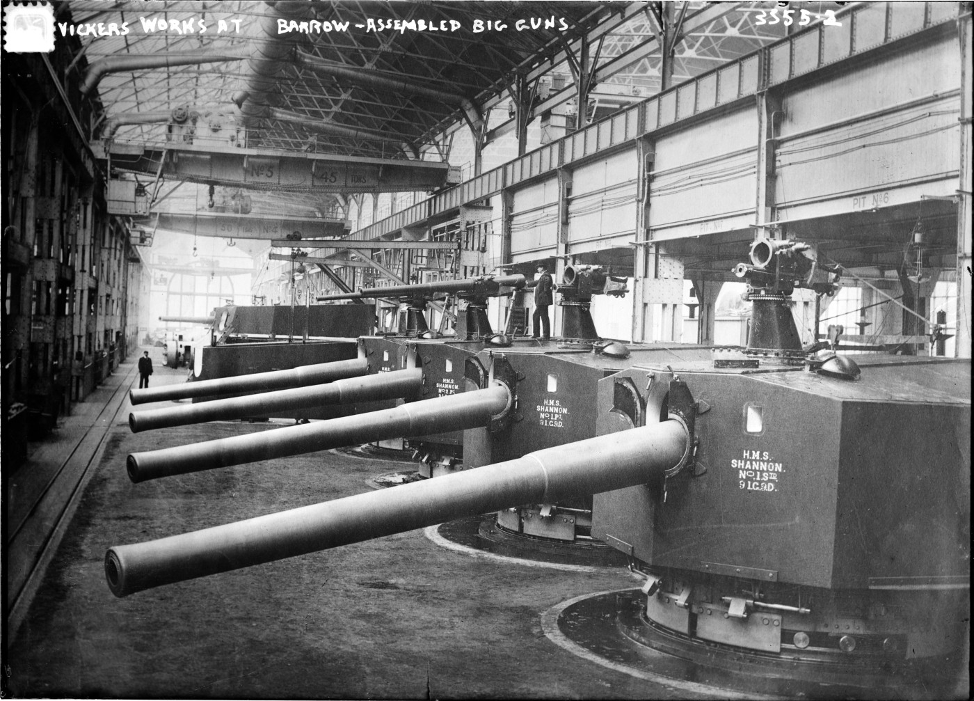 Photogram showing 4 BL 7.5 inch Mk V gun turrets for British armoured cruiser HMS Shannon under construction at the Vickers works, Barrow. QF 12 pounder 18 cwt guns can be seen on the two furthest turrets, with an engineer inspecting one.